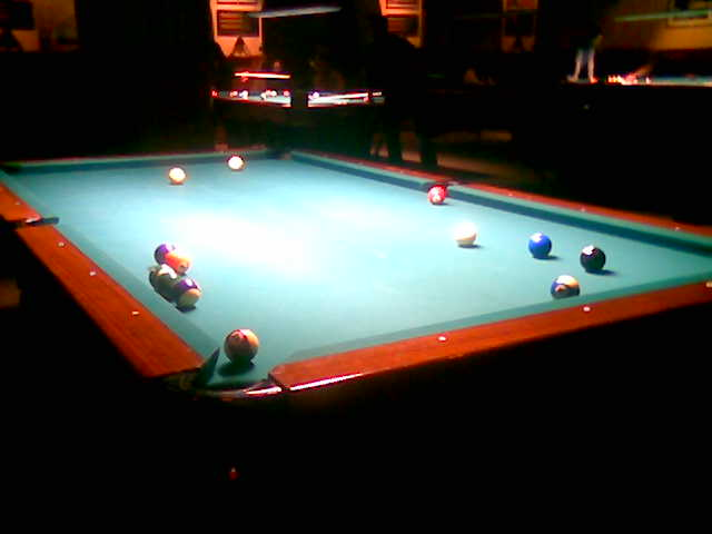 pocket billiards (pool) table. This image is misnamed - what is shown is not a snooker table! Tirada com o meu nokia 5140 ;)